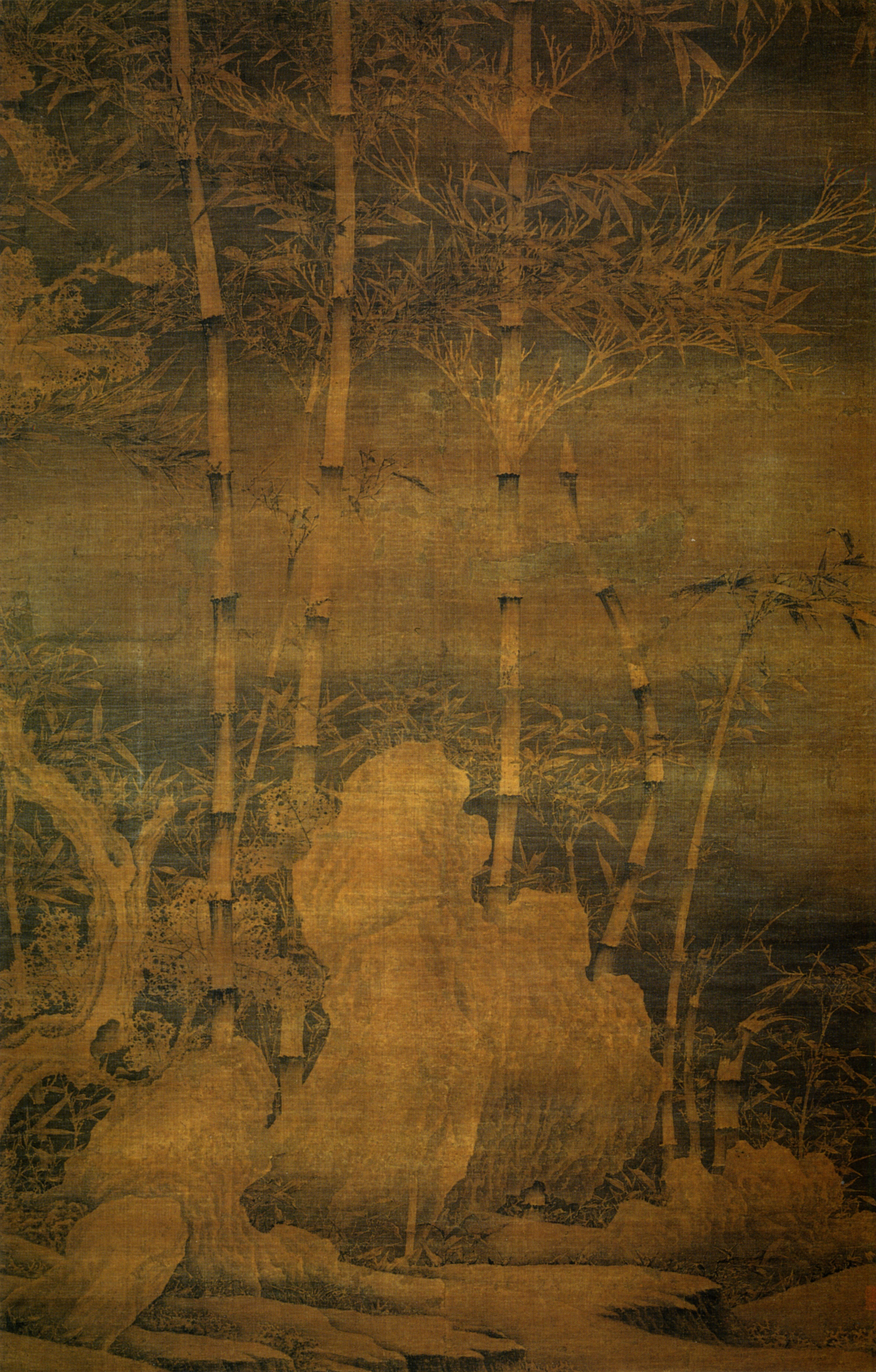 Snowy Bamboo (雪竹) attributed to Xu Xi. Width 99.2 cm, Length 151.1 cm. See Zhongguo gu dai shu hua jian ding zu. (中國古代書畫鑑定組編) 1997. Zhongguo hui hua quan ji.(中國繪畫全集) Zhongguo mei shu fen lei quan ji. Beijing: Wen wu chu ban she. (文物出版社) Volume 3, Page 12.